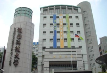 Faming Building, Lunghwa University of Science and Technology